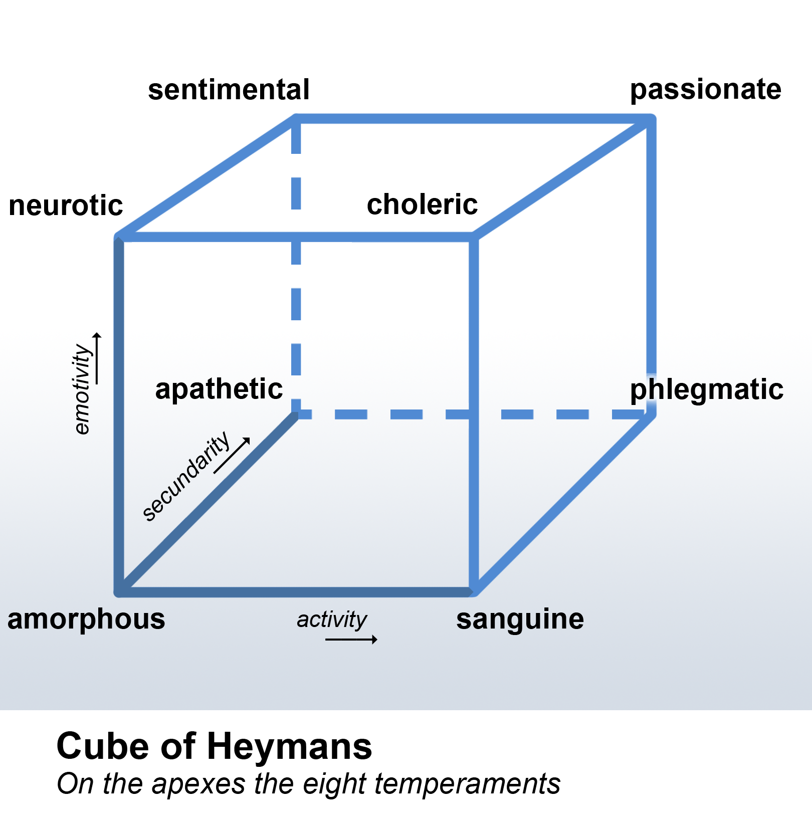 The Cube of Heymans is a description of a personality typology by Gerard Heymans. With this typology he wanted to create order in the personality psychology of his time.